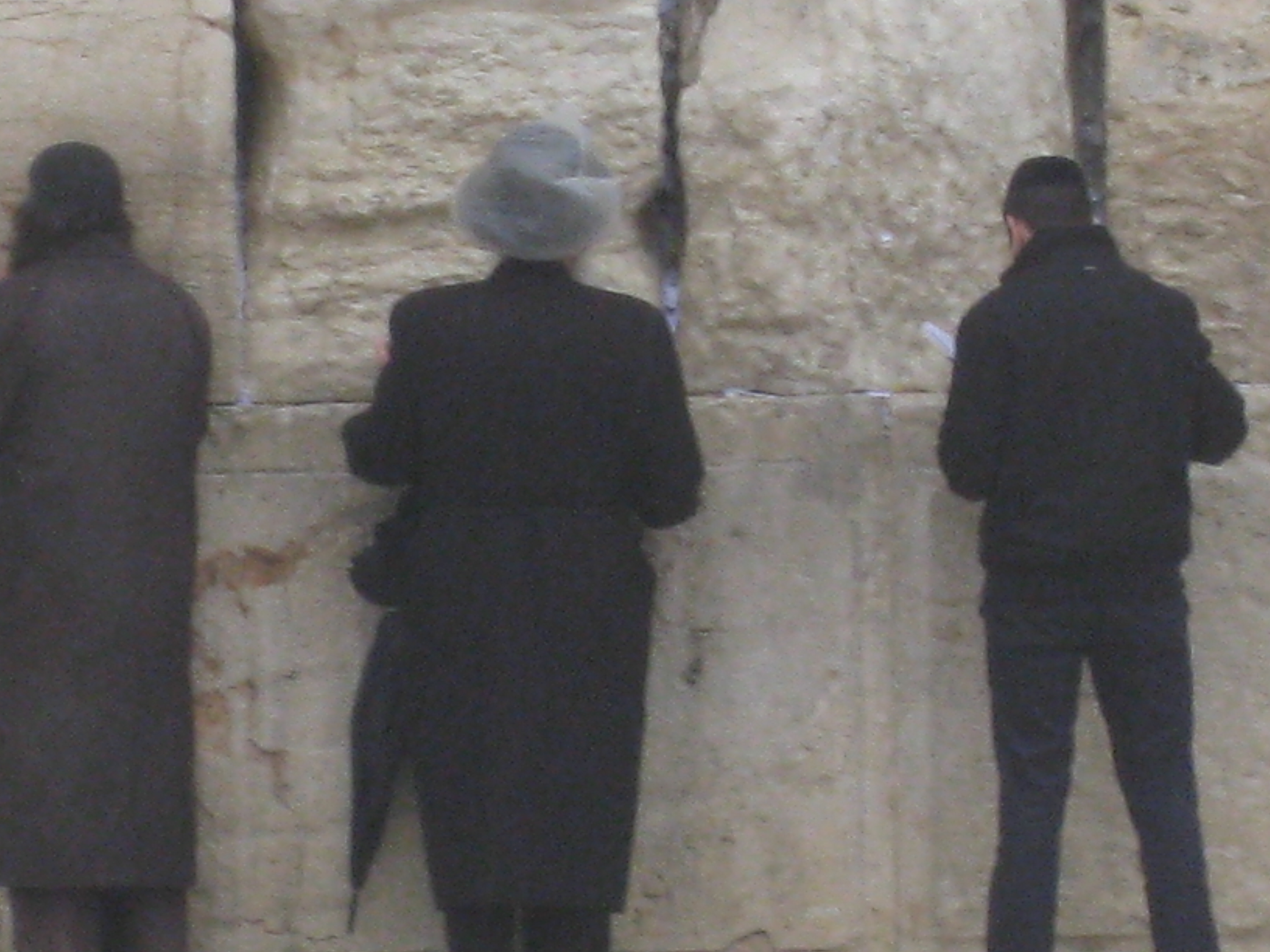 People praying at the Western Wall in Jerusalem, Israel